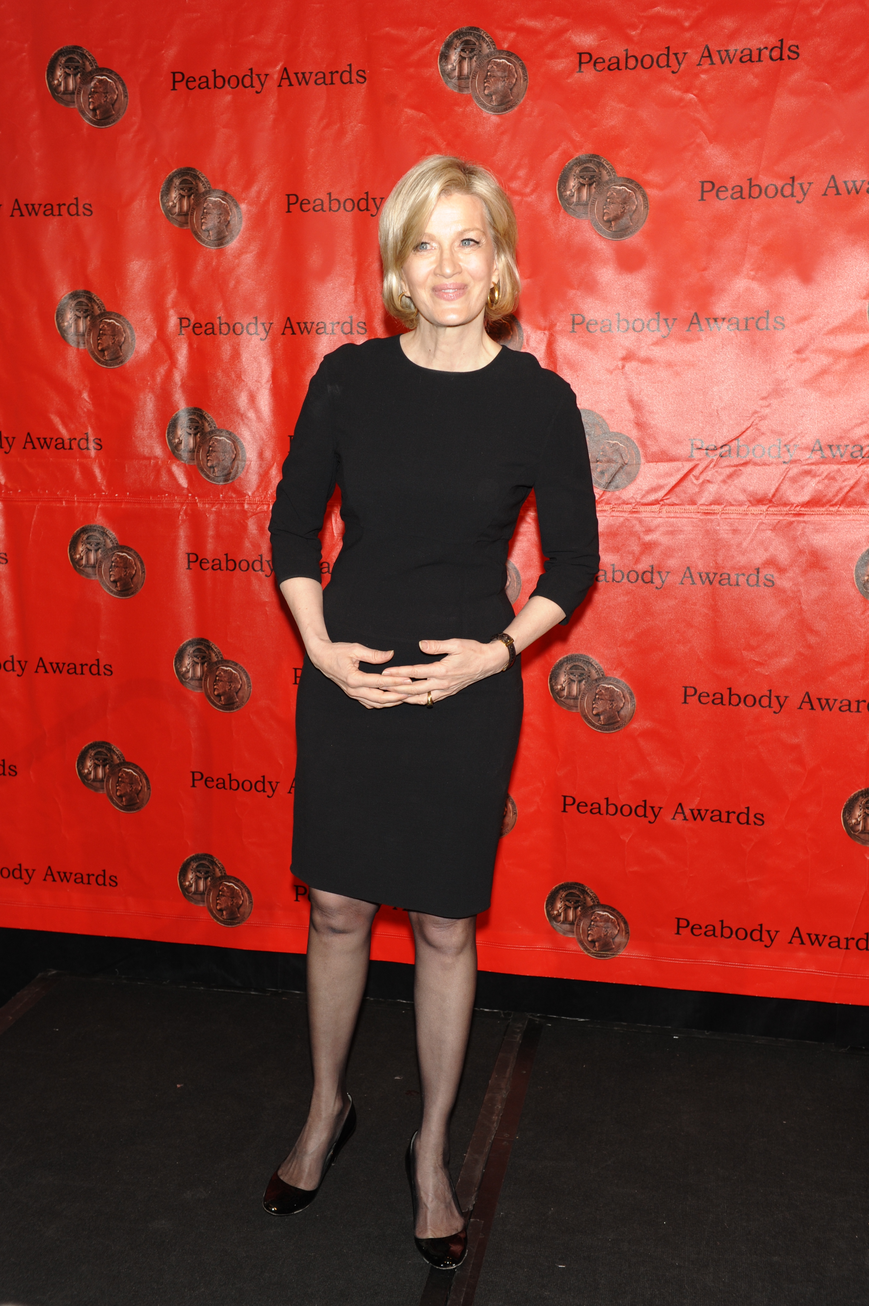 69th Annual Peabody Awards Luncheon Waldorf=Astoria Hotel New York, NY USA May 17, 2010